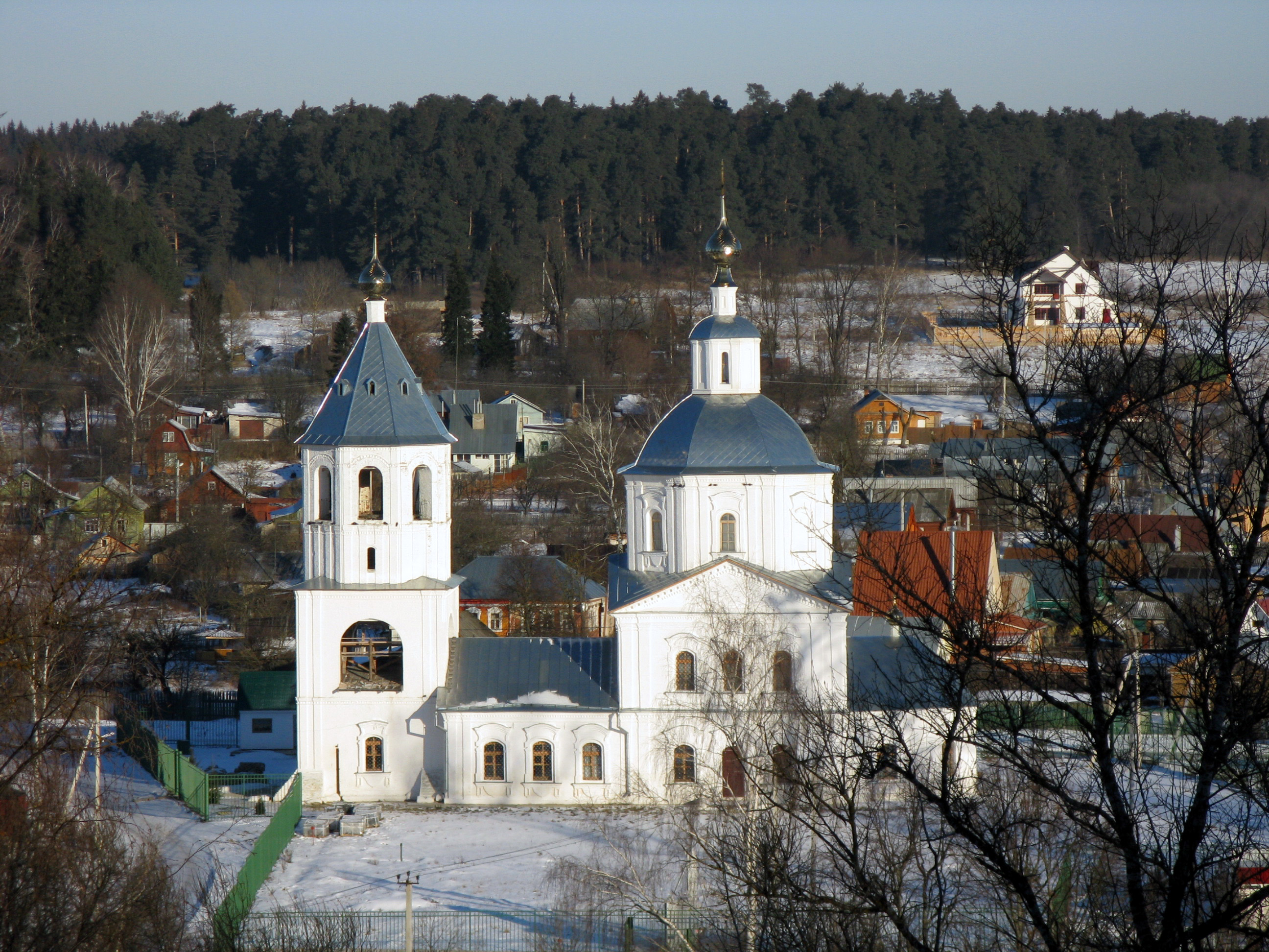 Epiphany's Orthodox church in Vereya, Moscow Oblast